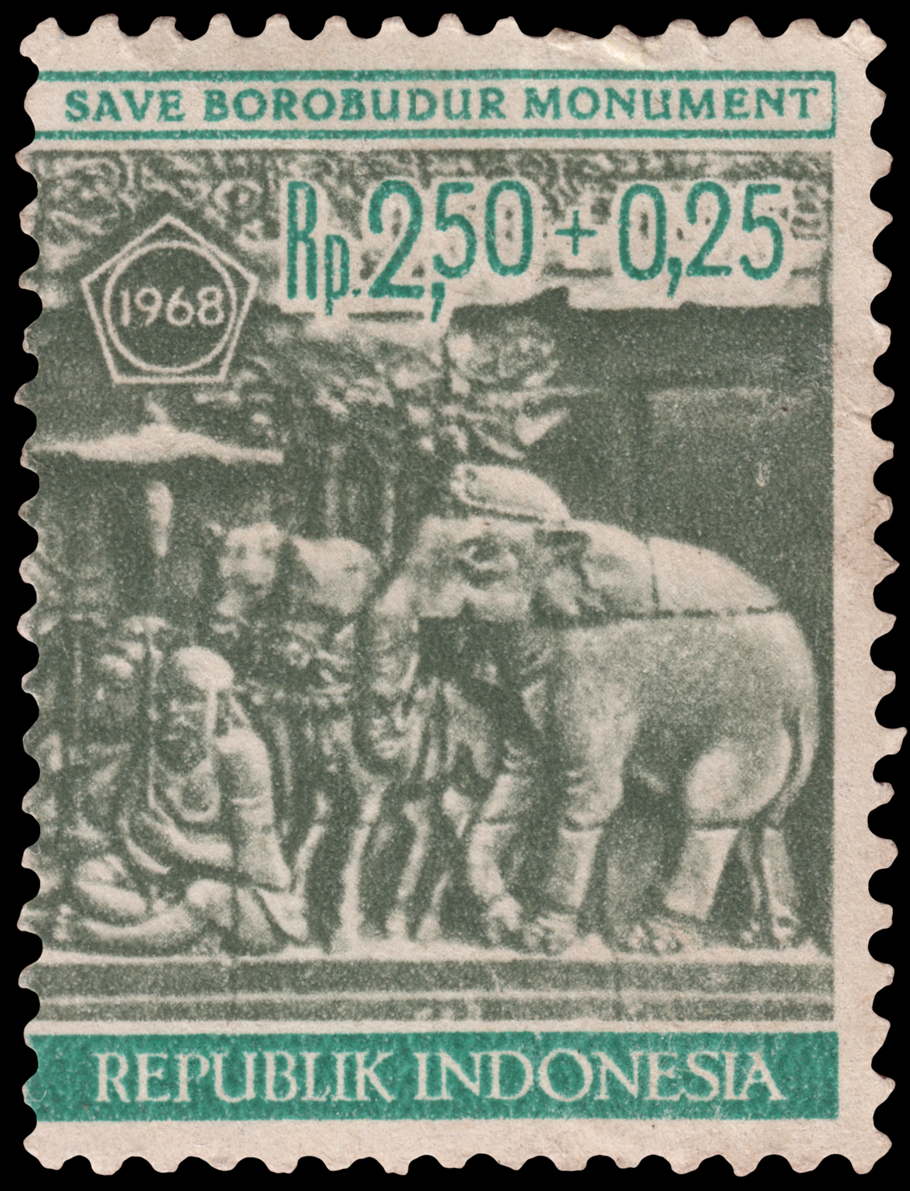 Save Borobudur Monument, 2.50rp+0.25 (1968)